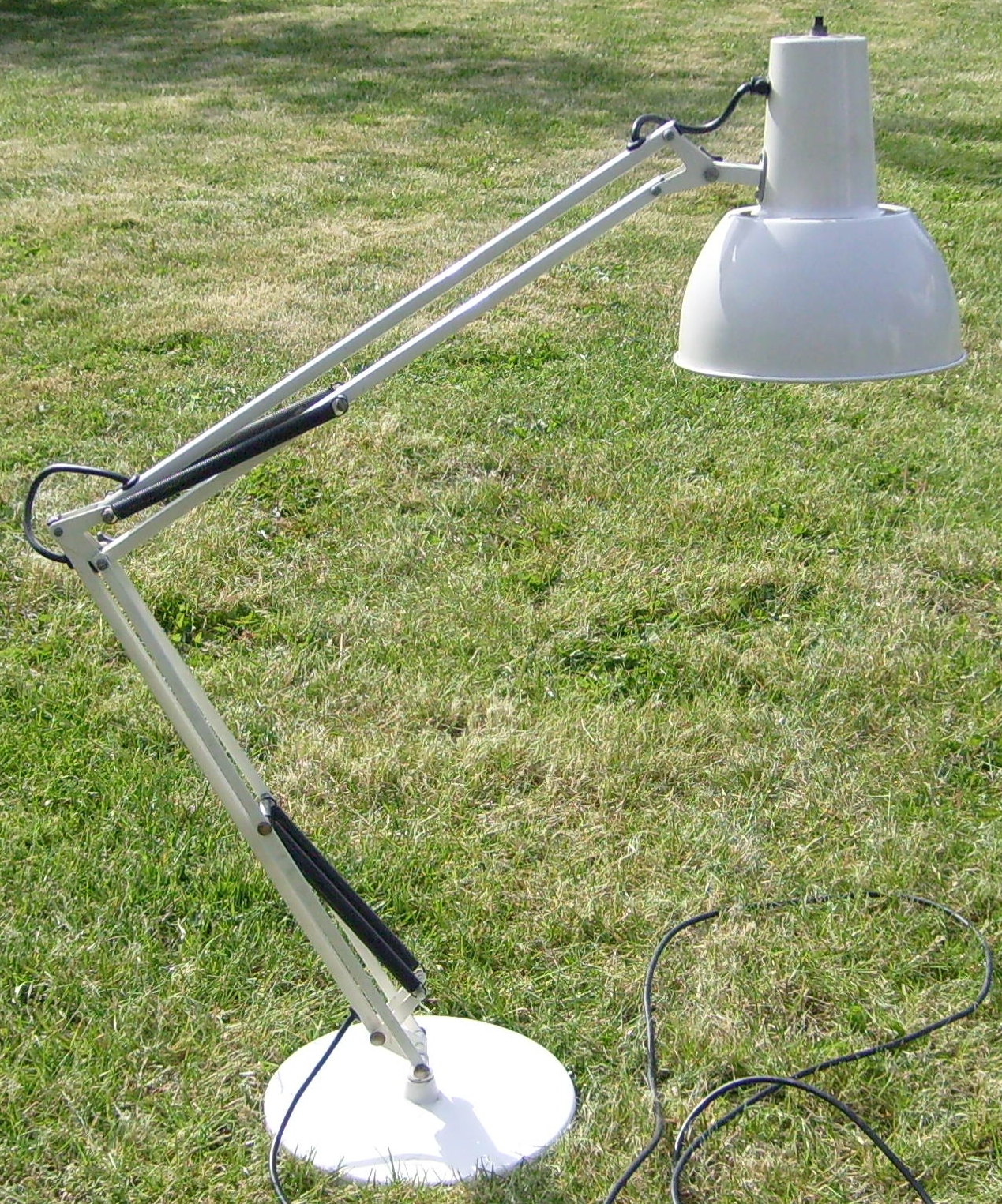 White balanced-arm desklamp